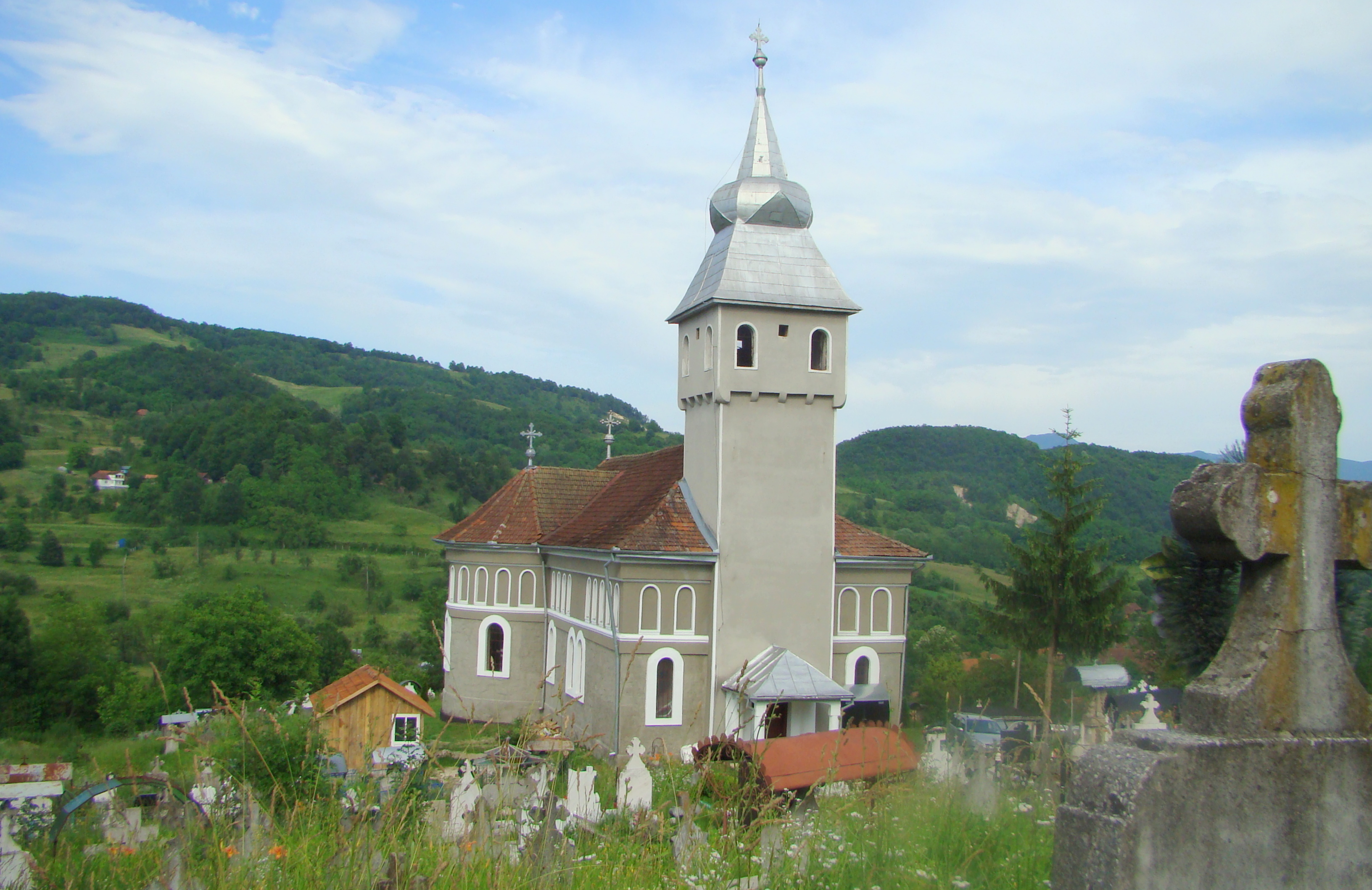 Church of the Annunciation in Ormindea, Hunedoara county, Romania